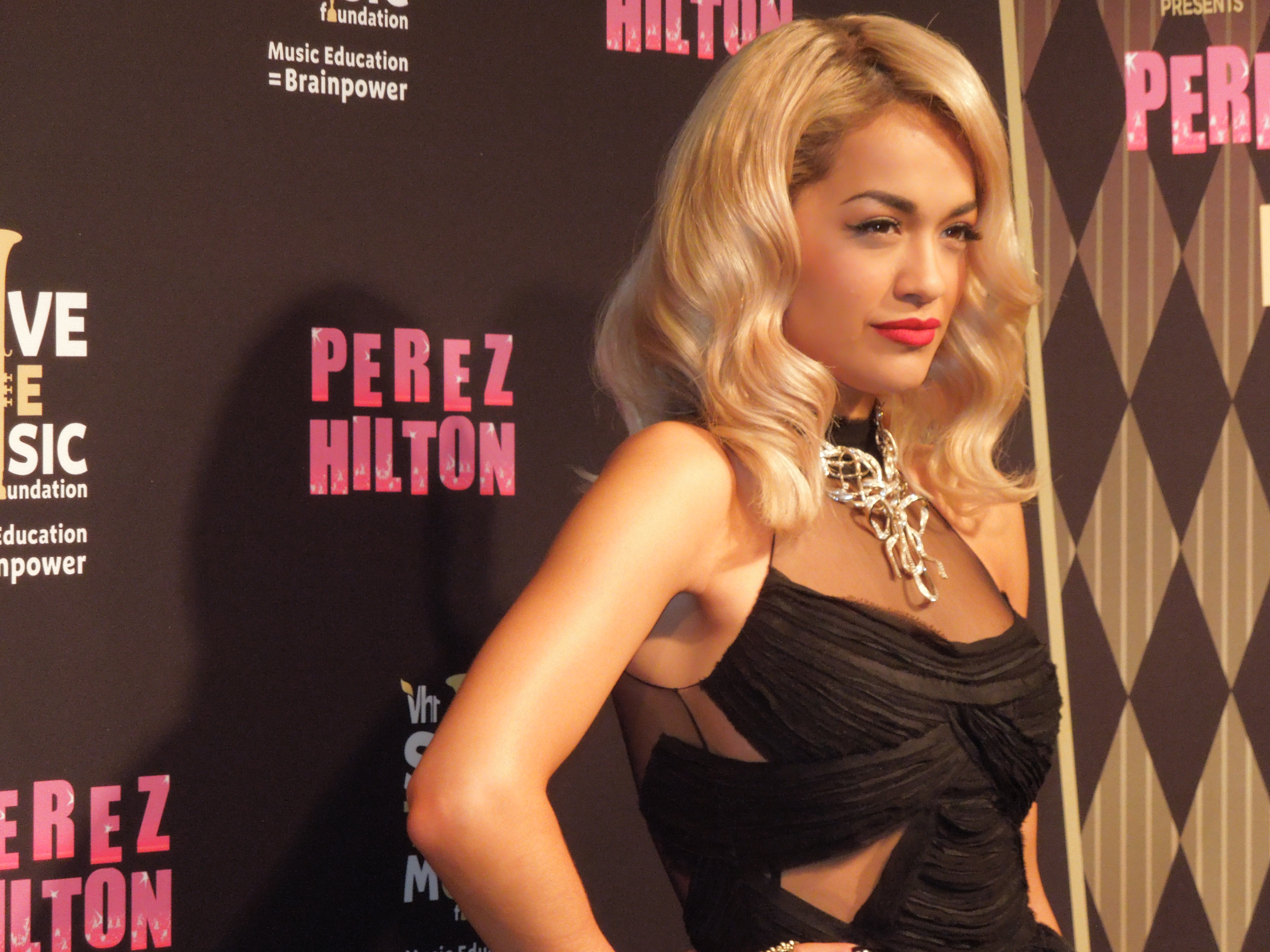 British songstress Rita Ora strikes a pose before she performs.